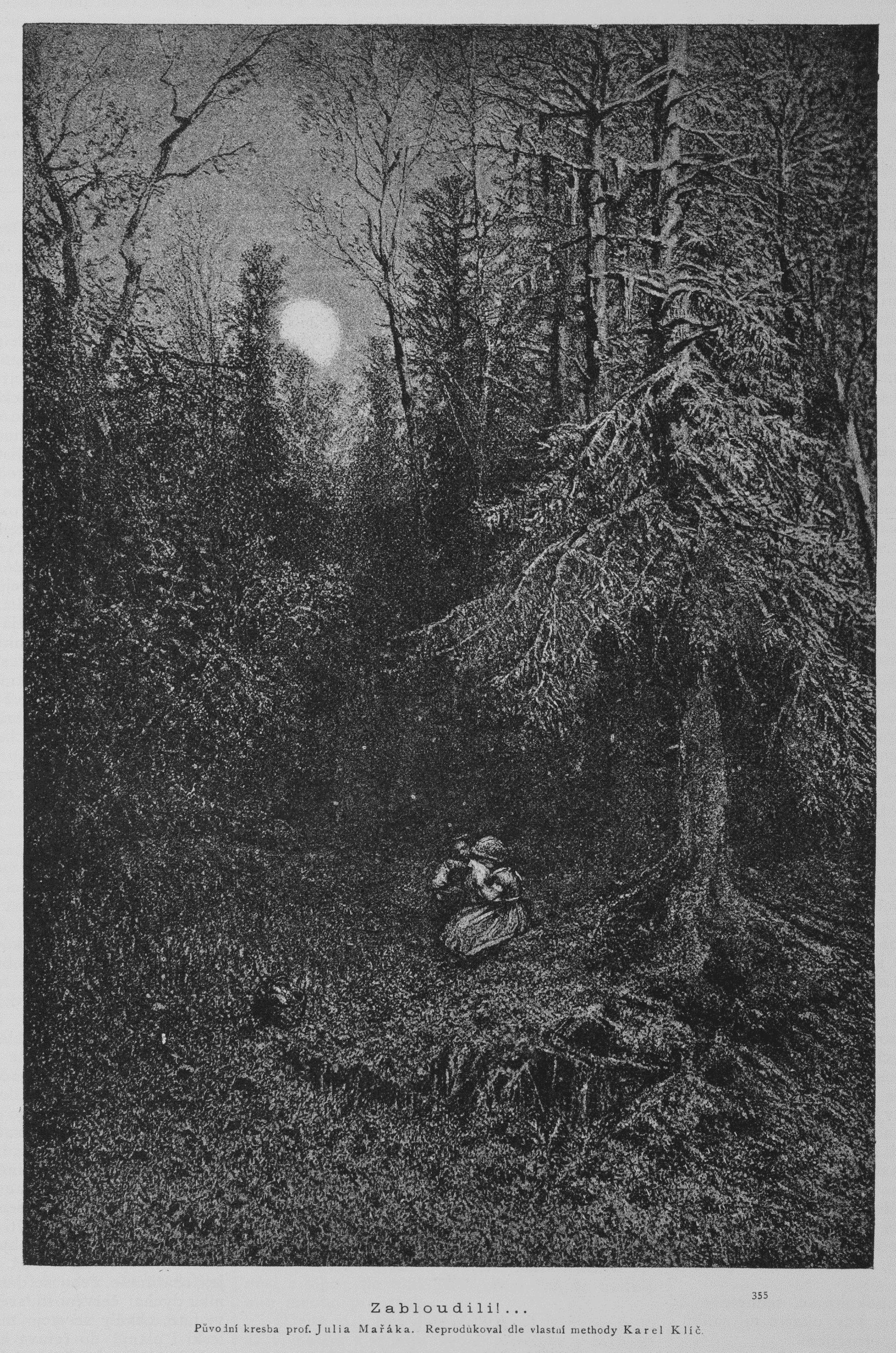 "They got lost" (Czech: Zabloudili). Painting by Julius Mařák, reproduced in a magazine by Karel Klíč.